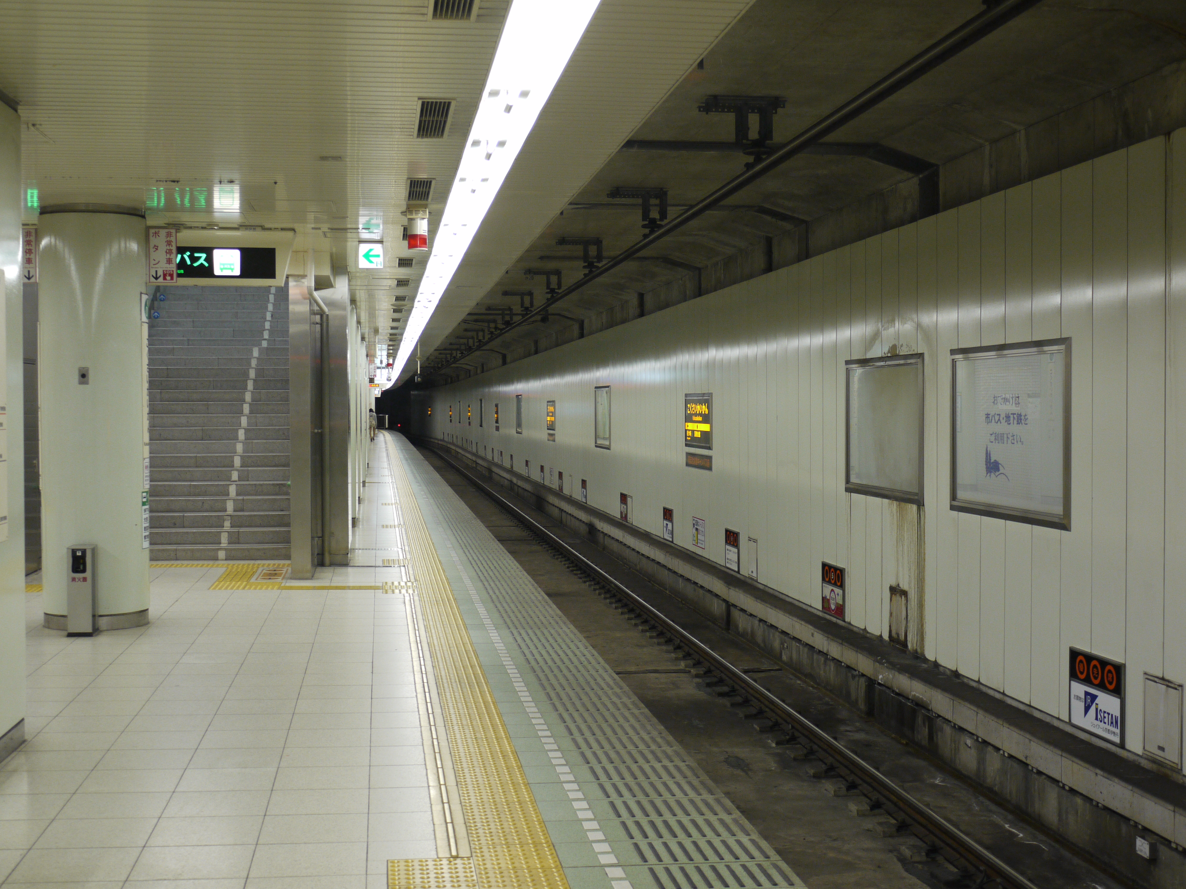 Kokusaikaikan (Kyoto International Conference Center) station platform